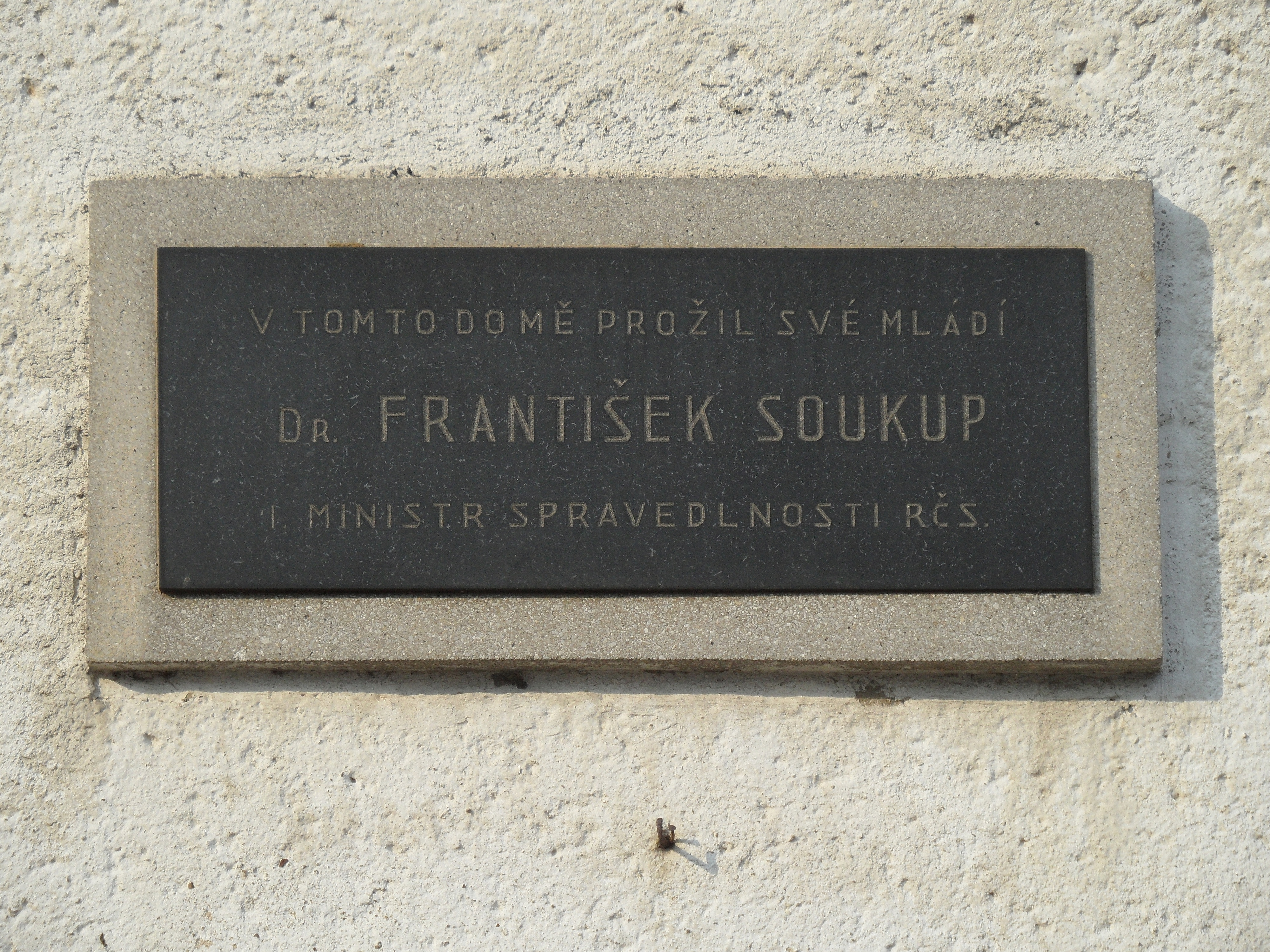 Zbraslavice D. House No. 11: Memorial Plaque of František Soukup. Kutná Hora District, the Czech Republic.